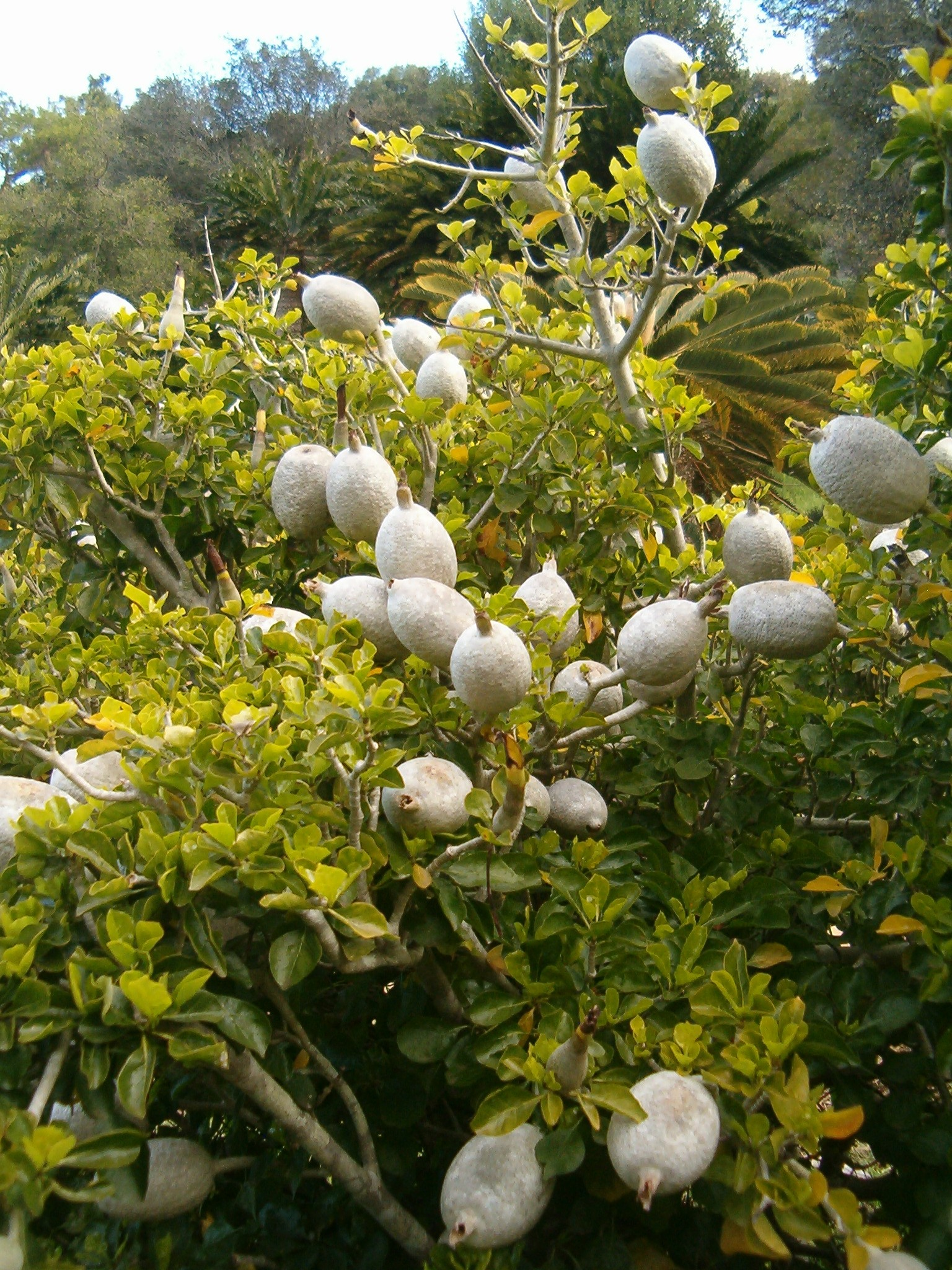 At Kirstenbosch National Botanical Gardens Species Gardenia ternifolia